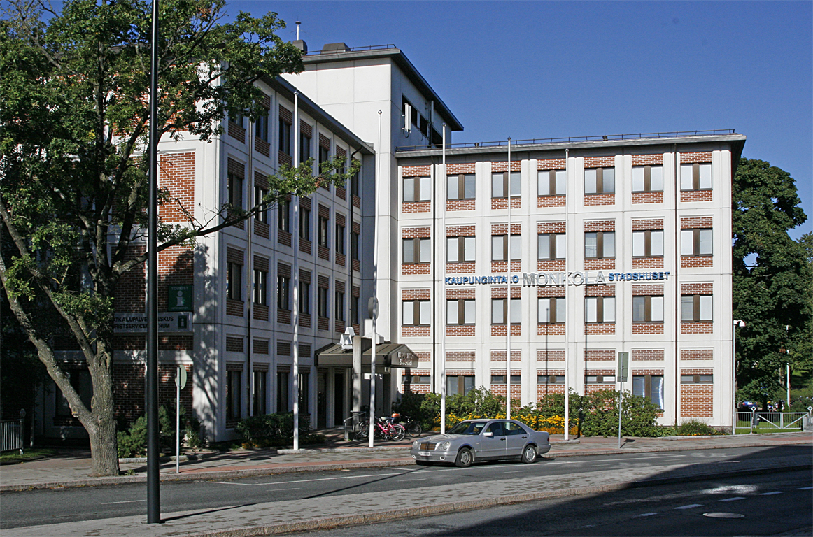 Lohja town hall, Finland